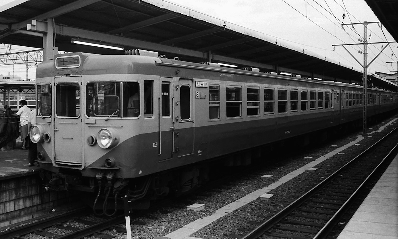 A JNR 155 series EMU at Shinagawa Station after arriving on an additional "Izu" express service